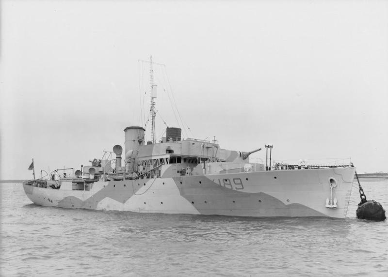 Photograph of British Flower class corvette HMS Bergamot (K189) moored to a buoy.